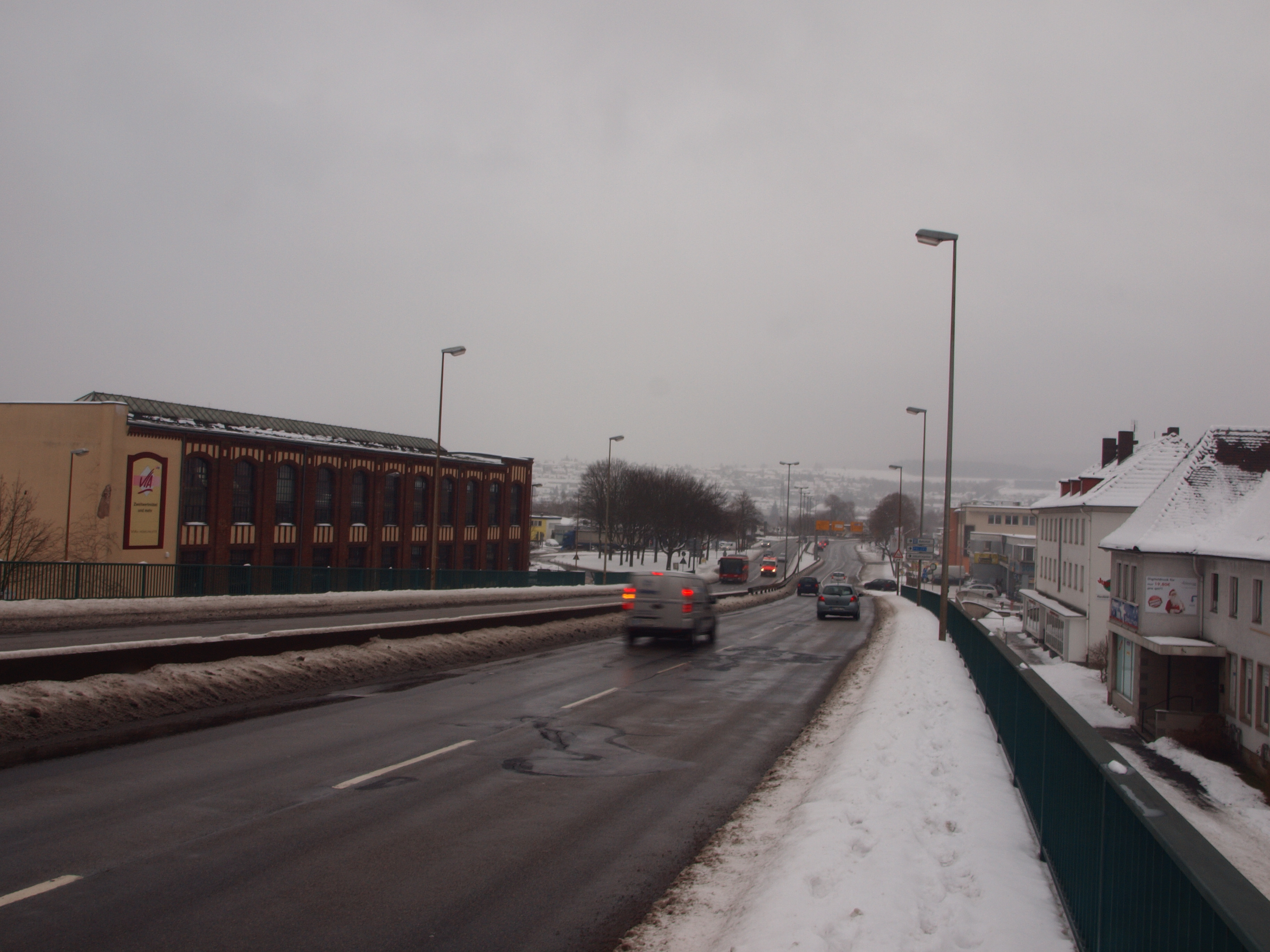 Frankfurter Straße (Frankfurt street) in Bad Hersfeld. It´s federal highway 324, it leads to the federal highway 27 (at yellow direction signs in the background of the picture)